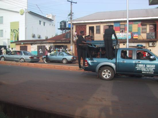 Another view of Awka City.